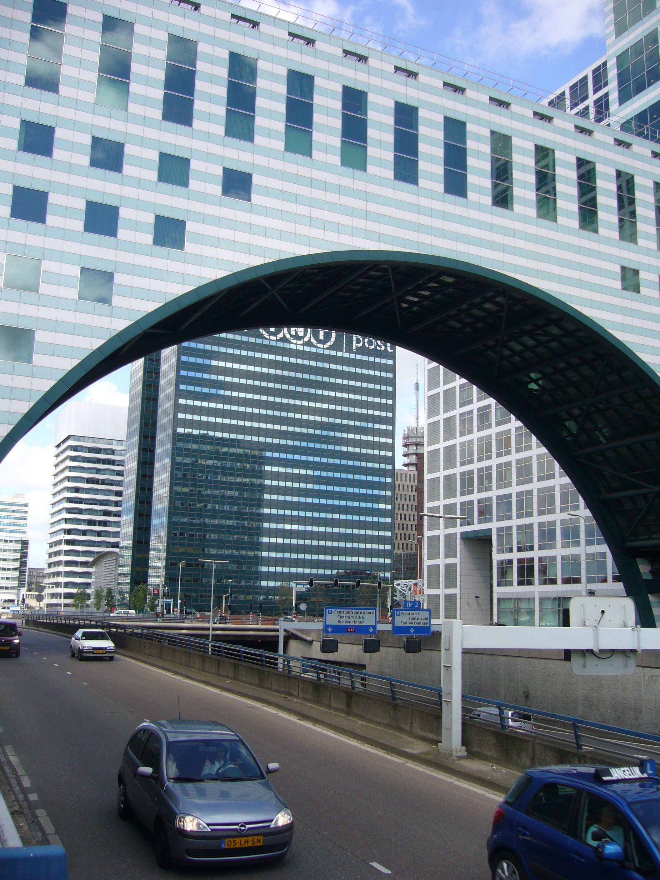 Haagse Poort, ING Real Estate in The Hague, across the A12 highway entering The Hague